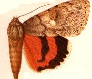 PLATE CXCVIII.